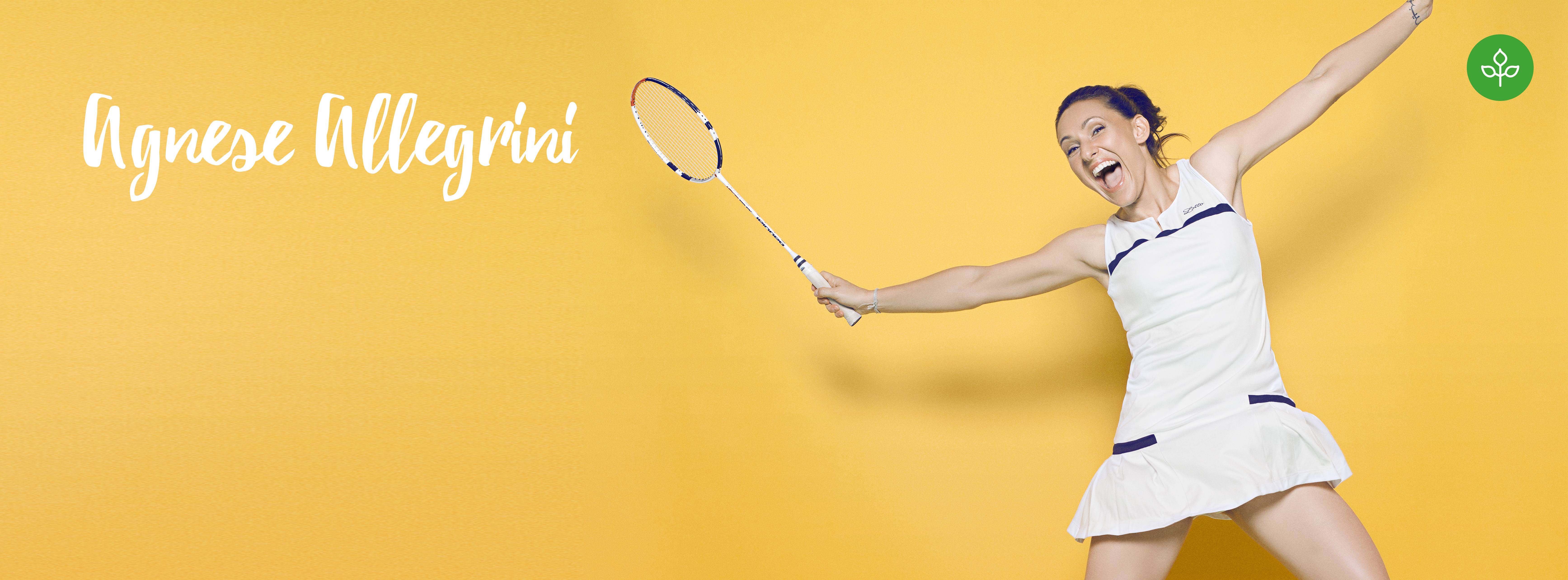 Agnese Allegrini per ViviMoringa 2016